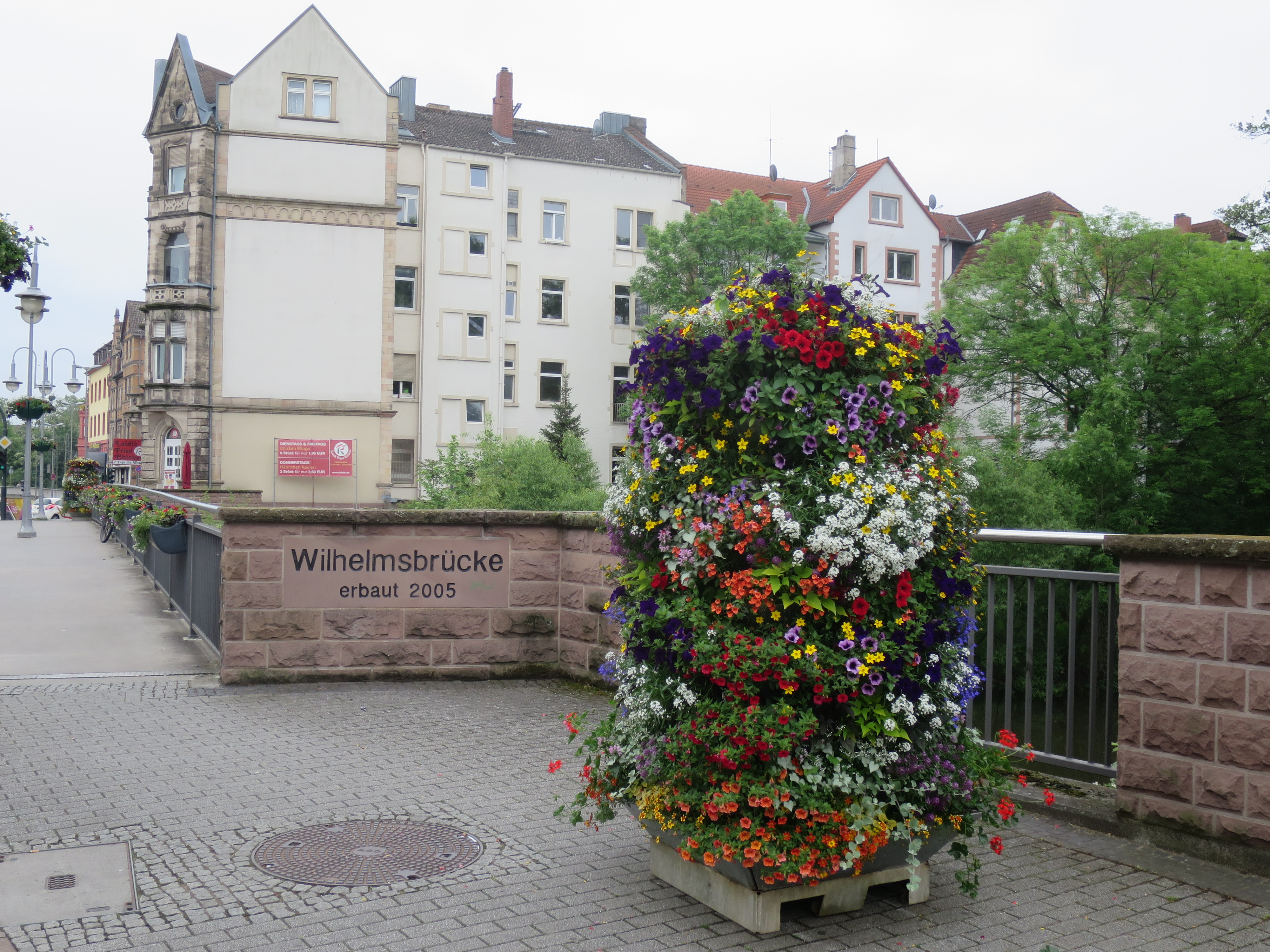 Wilhelmsbrücke, Hanau, Germany